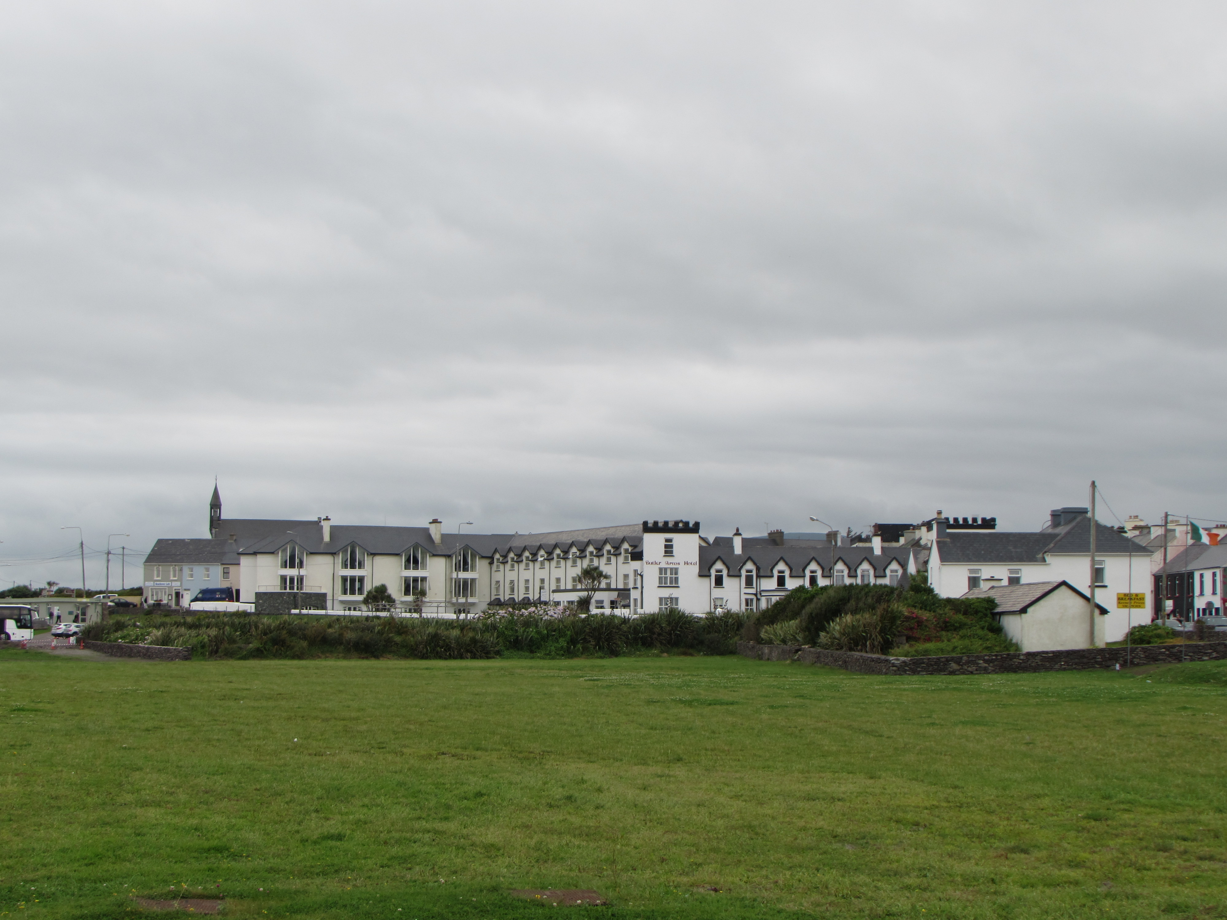 The Butler Arms Hotel on the seafront in Waterville, County Kerry, Ireland. Charlie Chaplin and his family stayed in this hotel several times and a few yards off to the right from the photographer's position stands this statue of Chaplin.